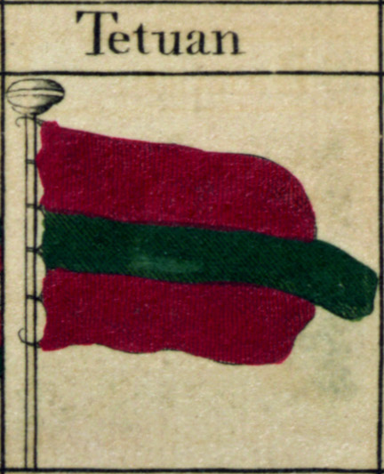 Naval flags of Tetuan [Tetouan] (depends on Morocco) Detail of Bowles's naval flags of the world, 1783.jpg.